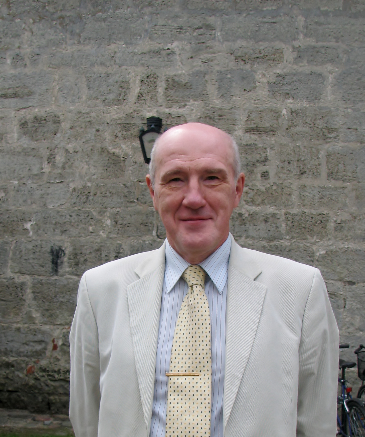 Olav Ehala during Saaremaa Opera Days